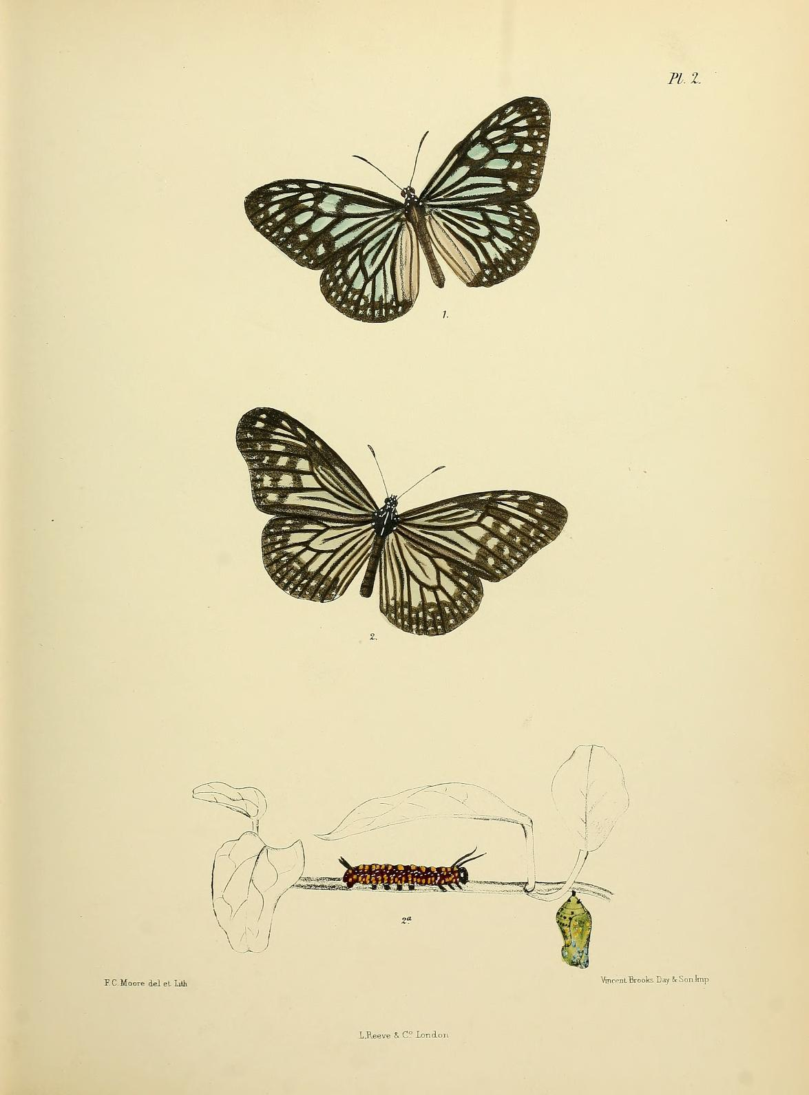 Frederic Moore The Lepidoptera of Ceylon Plate 2 Warning some taxa/names may be misidentified/misapplied or placed in a different genus Fig. 1. Radena exprompta [Butler, 1874] =Ideopsis similis (Linnaeus, 1758) Fig.2, 2a. Parantica Ceylonica =ceylanica =Parantica aglea (Stoll, [1782])